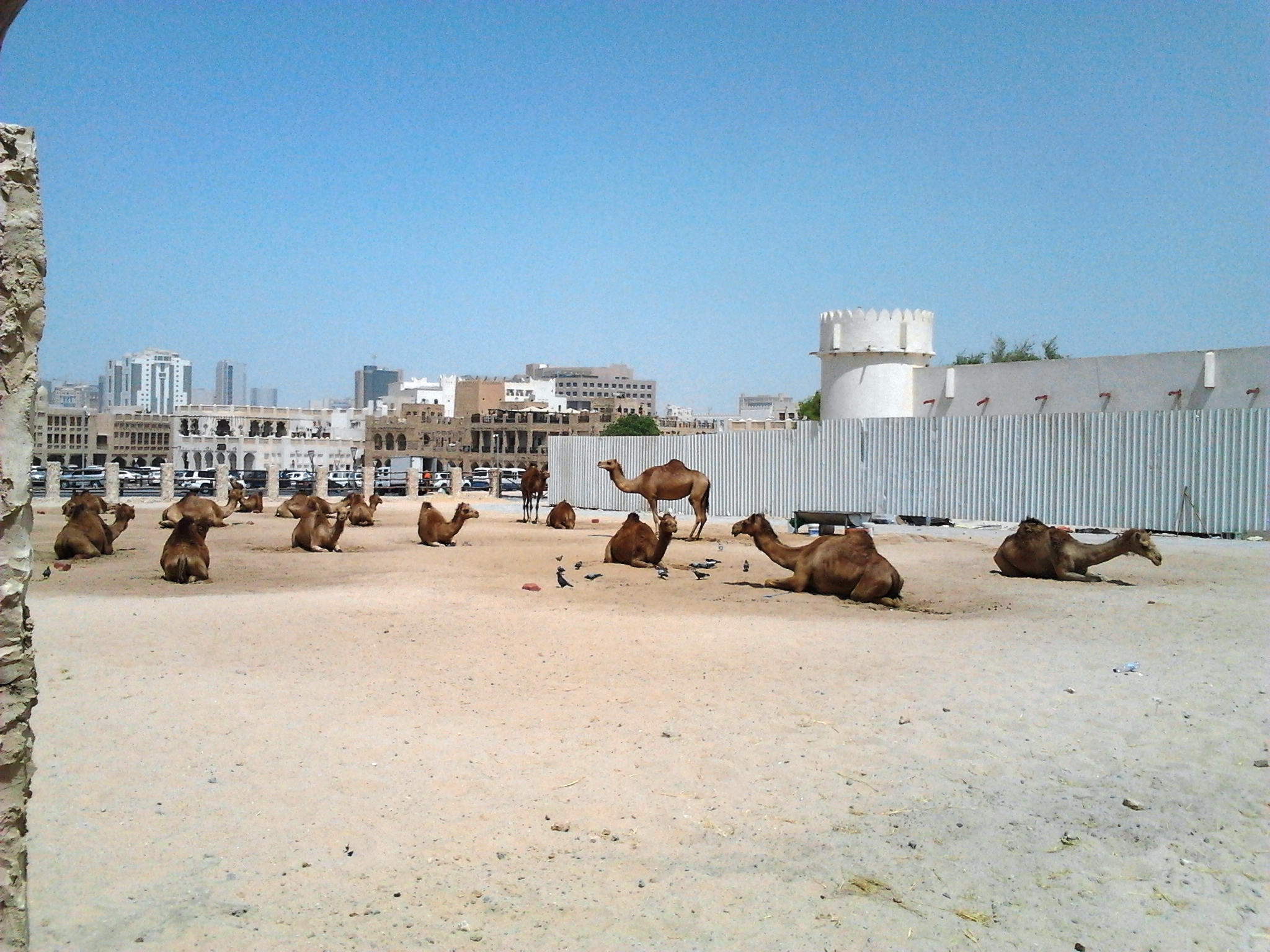 Camelus market of Doha